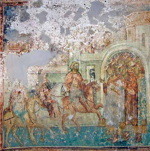 Dormition of the Theotokos Church in Matejče, Macedonia (1348-1352), The Cycle of the Akathistos Hymn of the Virgin, V kontakion